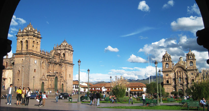 Cathedral and Company of Jesus, Plaza de Armas, Cusco